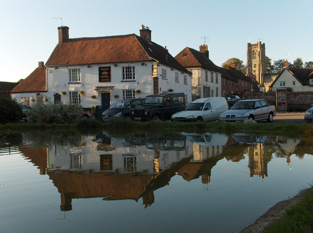 The Square, Aldbourne The Crown Hotel and St Michael's Church.